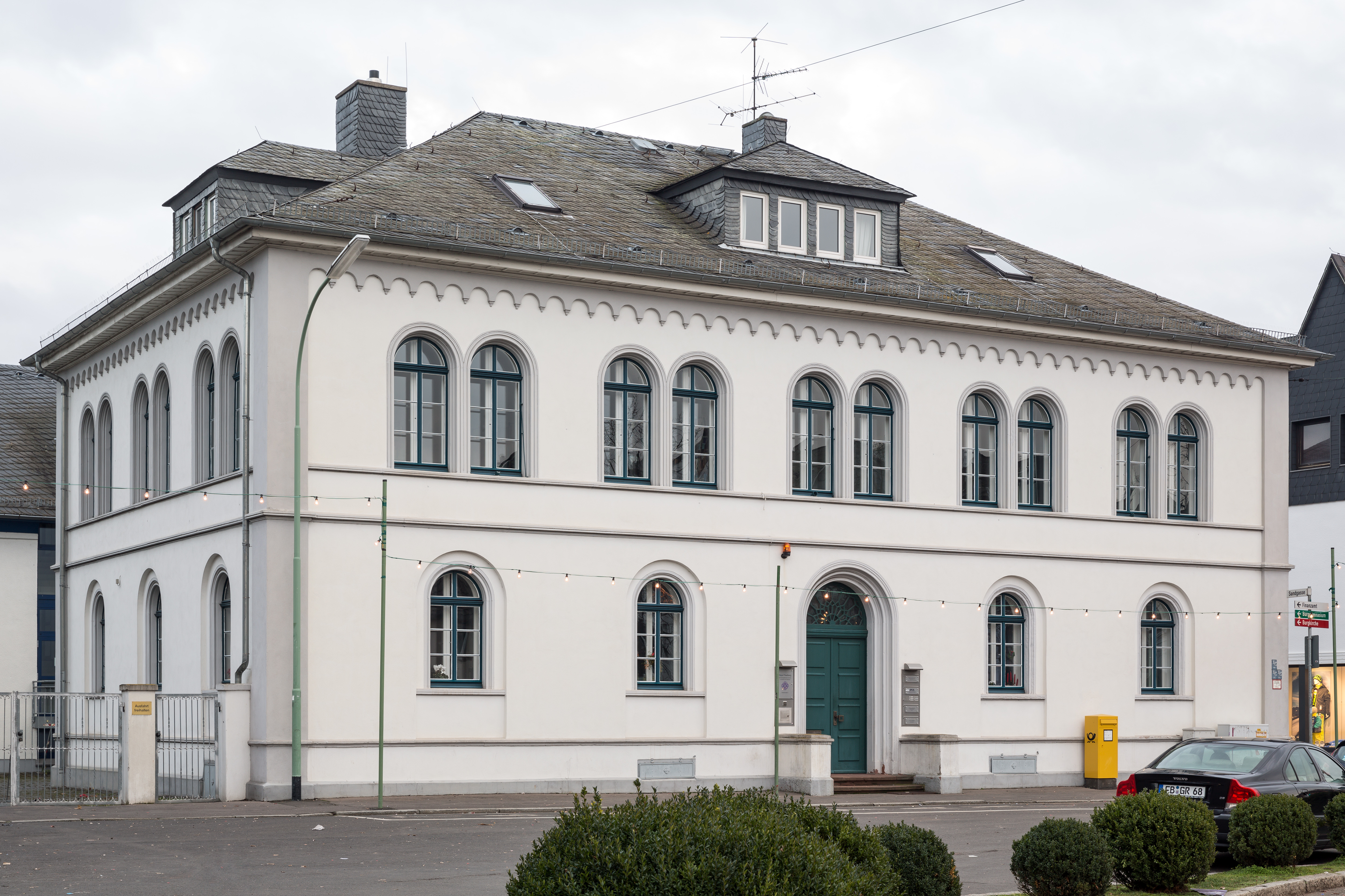 Friedberg (Hesse): Kaiserstraße (Emperor Street) 2 as seen from the northwest